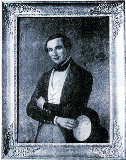 Portrait of Carlo Erba